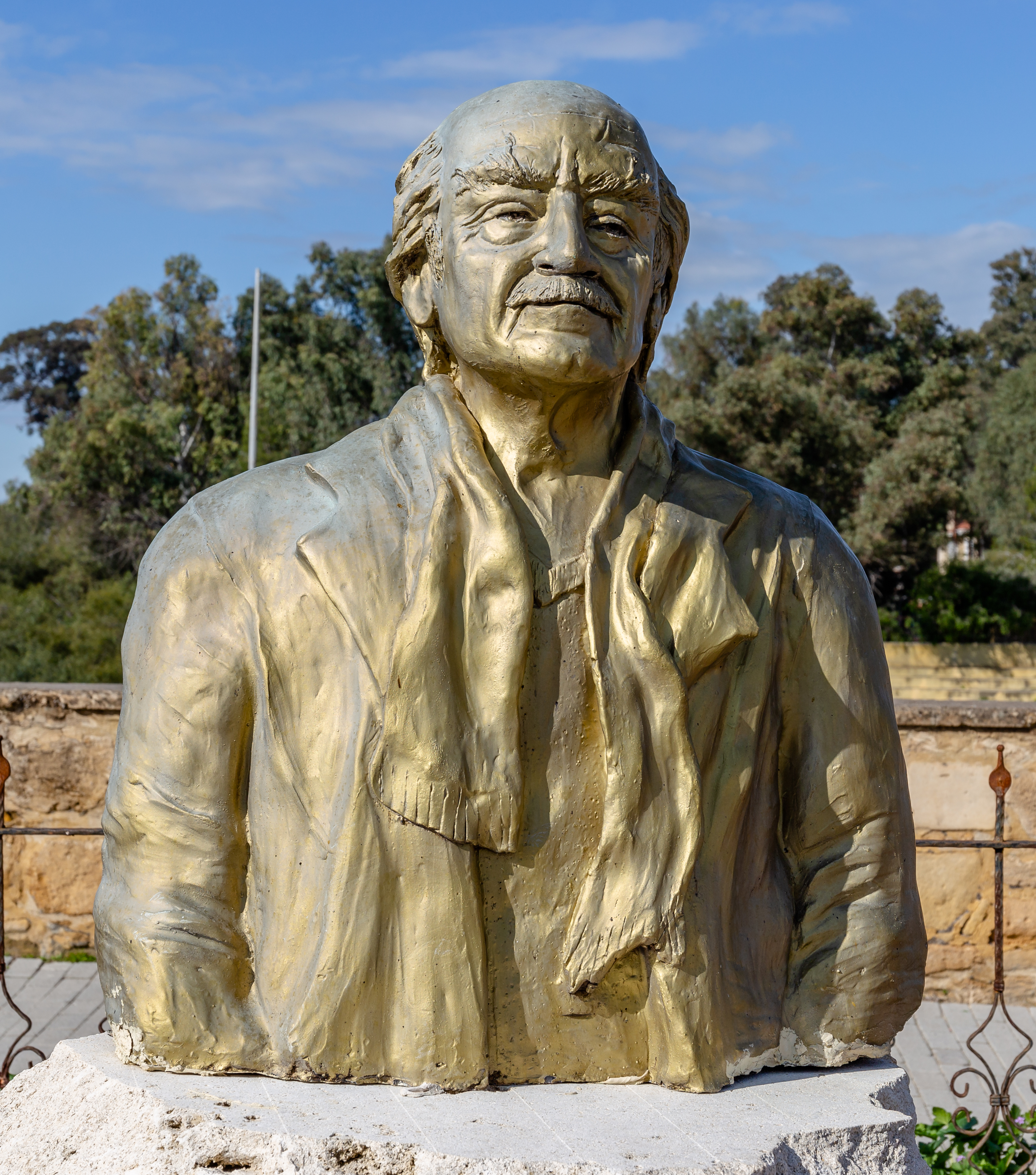 Bust of Bener Hakki Hakeri (1936-2013), North Nicosia, Cyprus